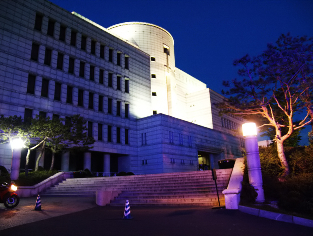 Paeknam Library : Central library in Hanyang University